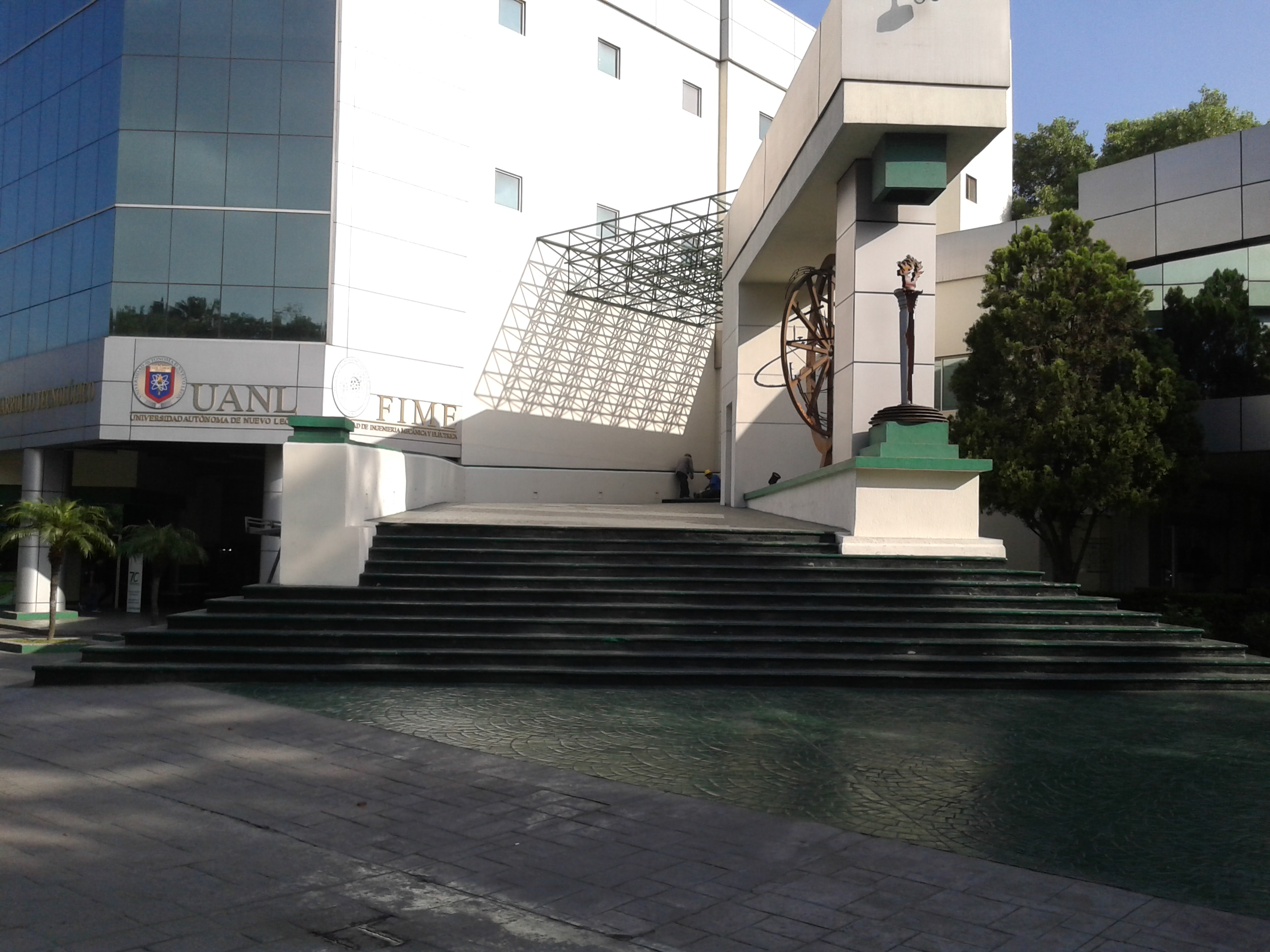 Exterior view from Facultad de Ingeniería Mecánica y Eléctrica of the Universidad Autónoma de Nuevo León.